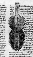 See title